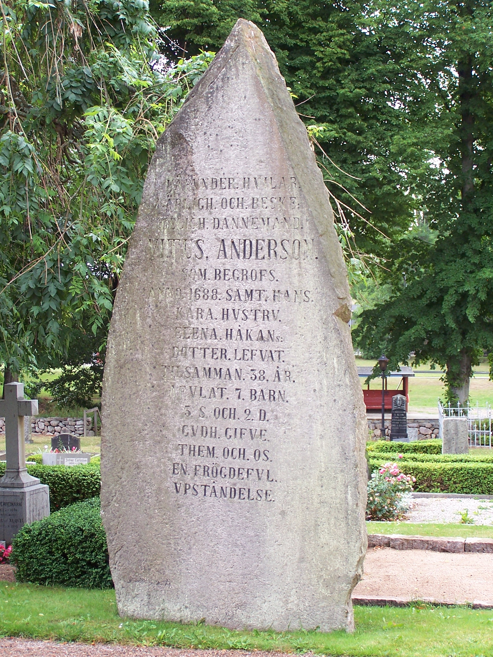 Tombstone over Vitus Andersson in Nättraby churchyard